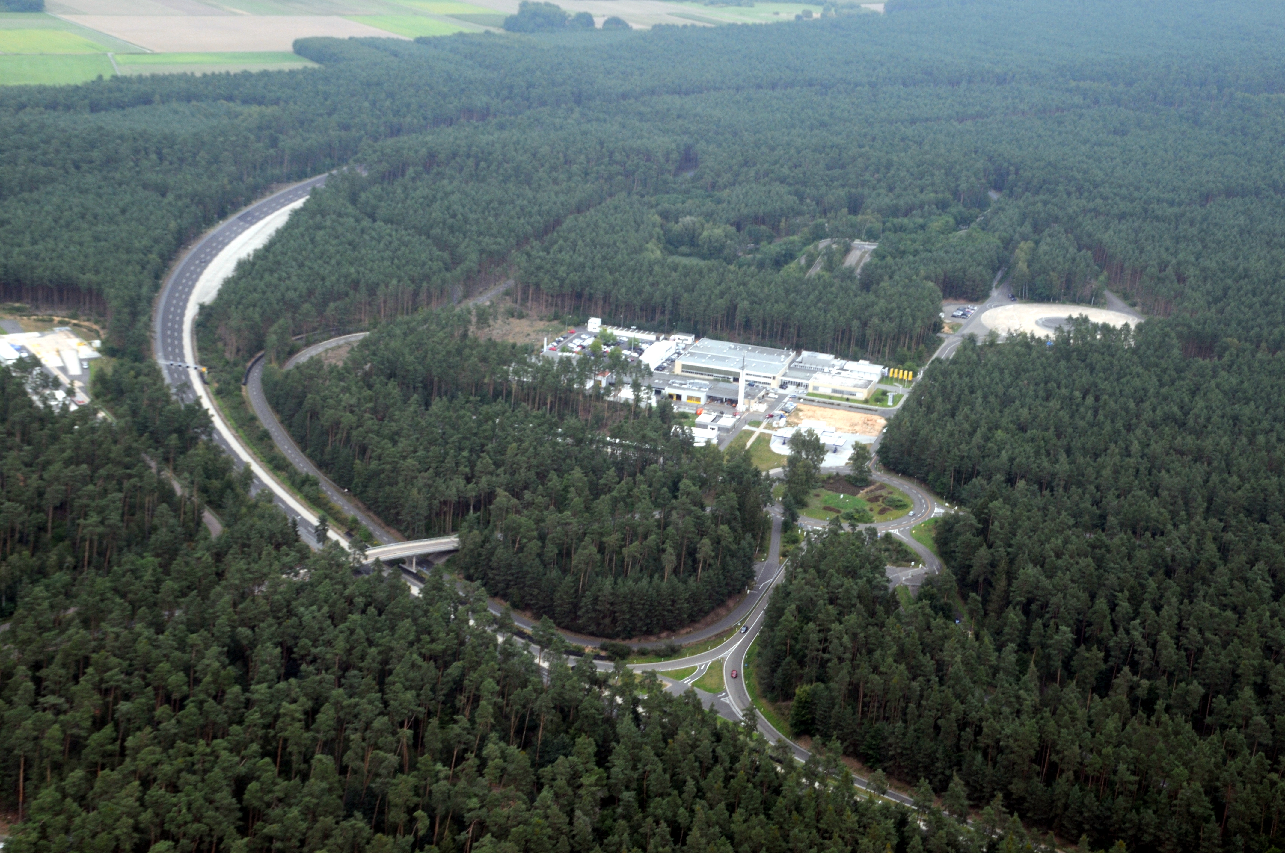 Opel test tracks, Dudenhofen, Rodgau, Hesse, Germany, aerial photograph